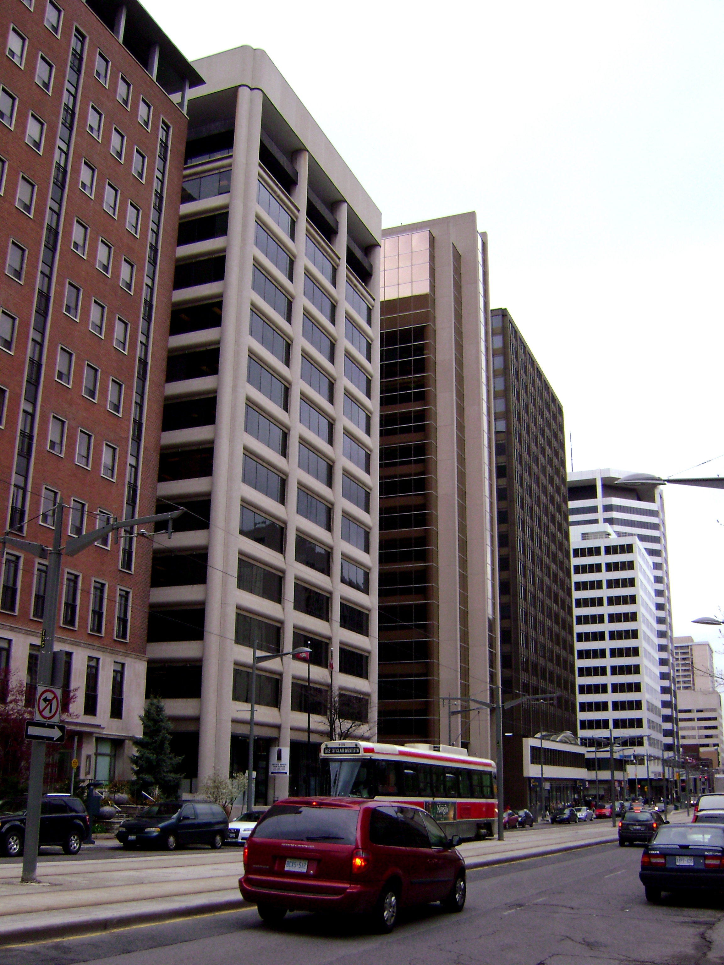 Yonge and St. Clair Avenue West, Toronto in 2008. The third building houses offices for companies such as the head office for Northland Power, and the head office of Maple Leaf Foods.